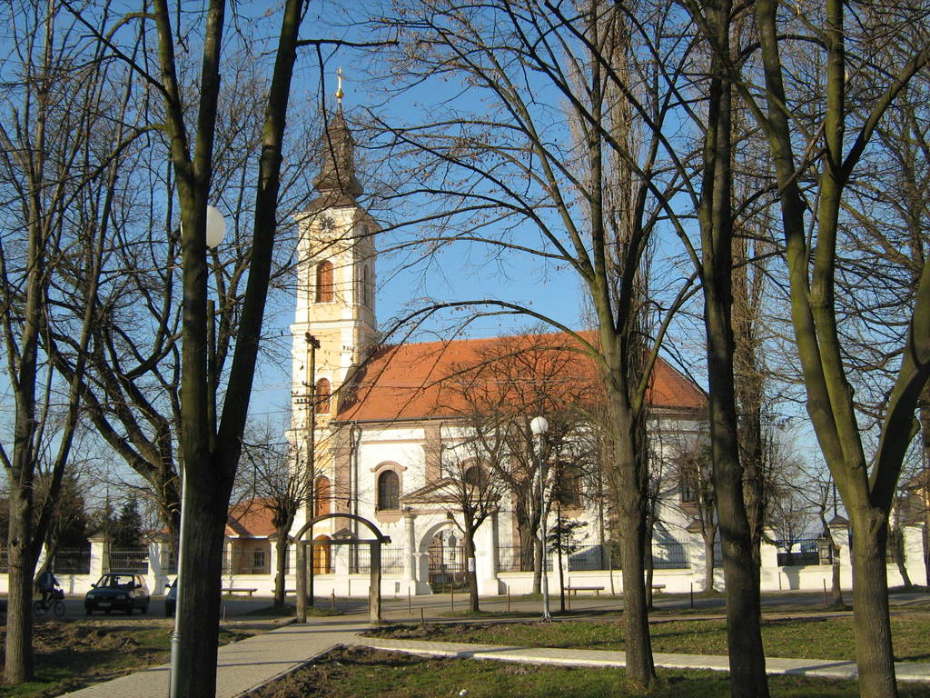 A church in Šimanovci, near Pećinci, Serbia